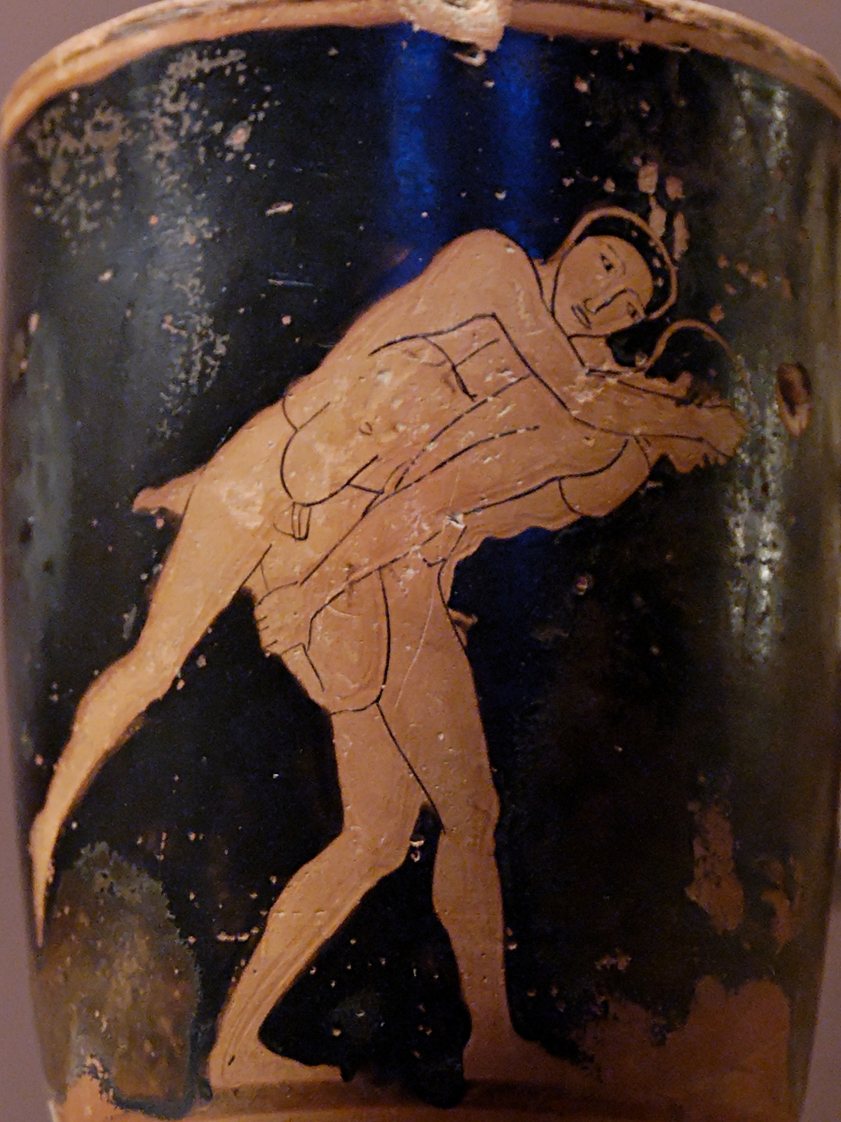 Boys playing the Ephedrismos game. Attic red-figured lekythos, 475–450 BC. Found in Attica.